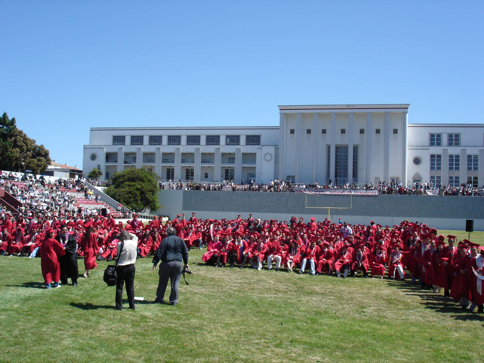 George Washington High School (San Francisco) Graduation, Class of 2006.